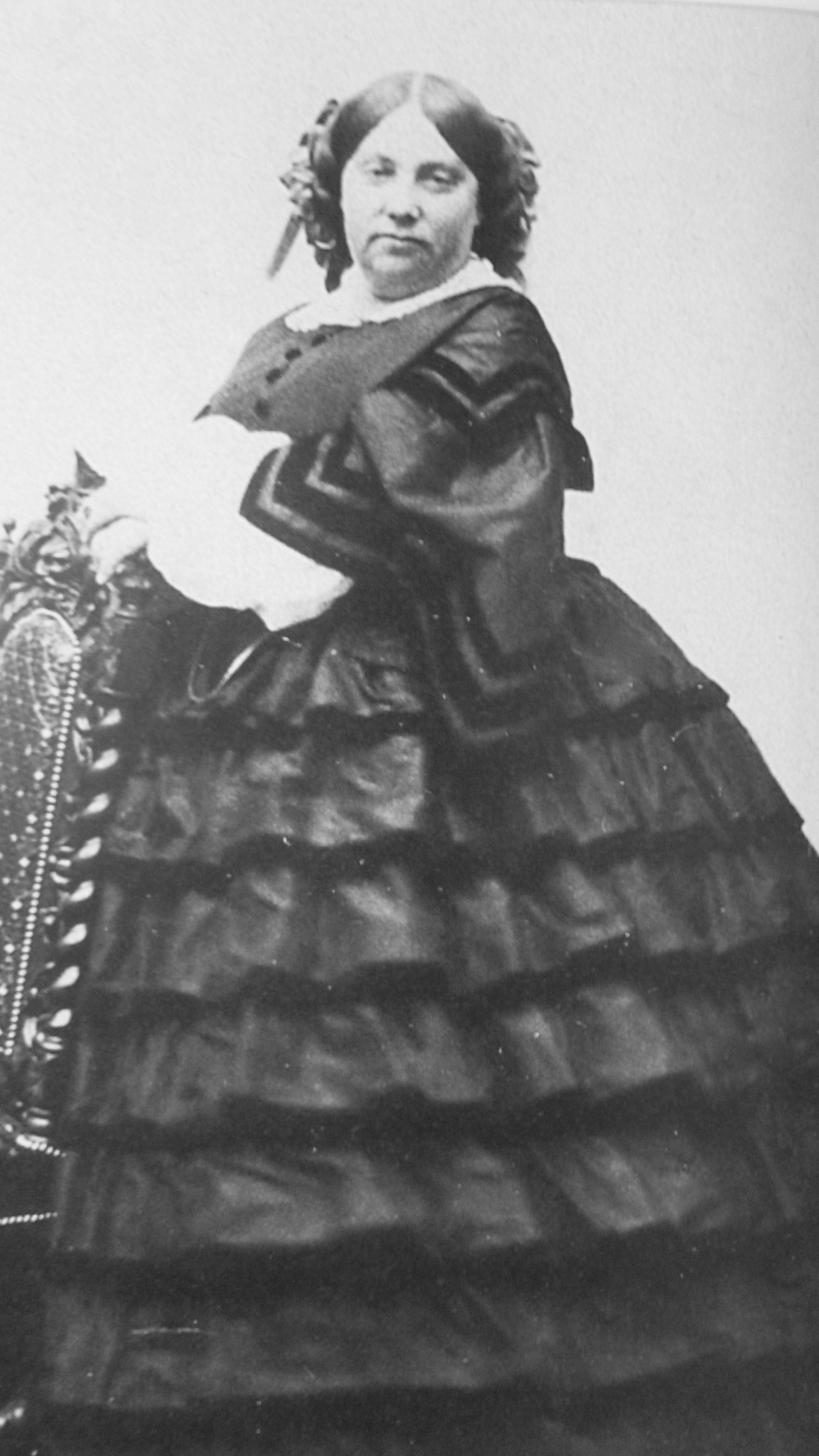 Louise Marie Thérèse of Artois (1819-1864), Duchess of Parma